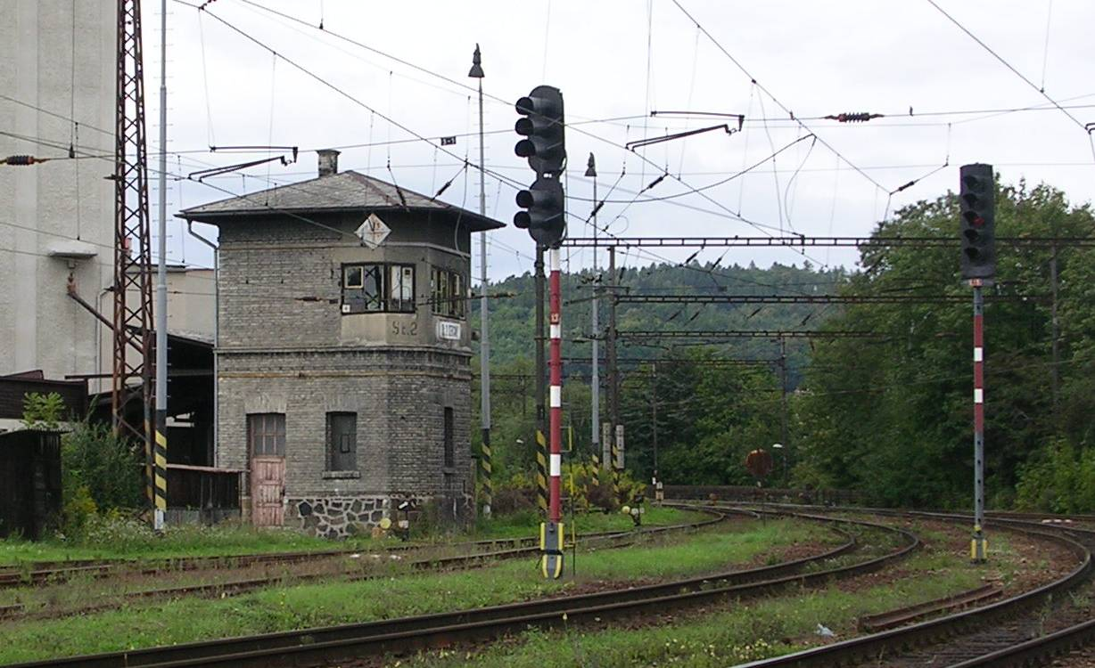 Signal box 2 at railway station Čerčany, Czech Republic